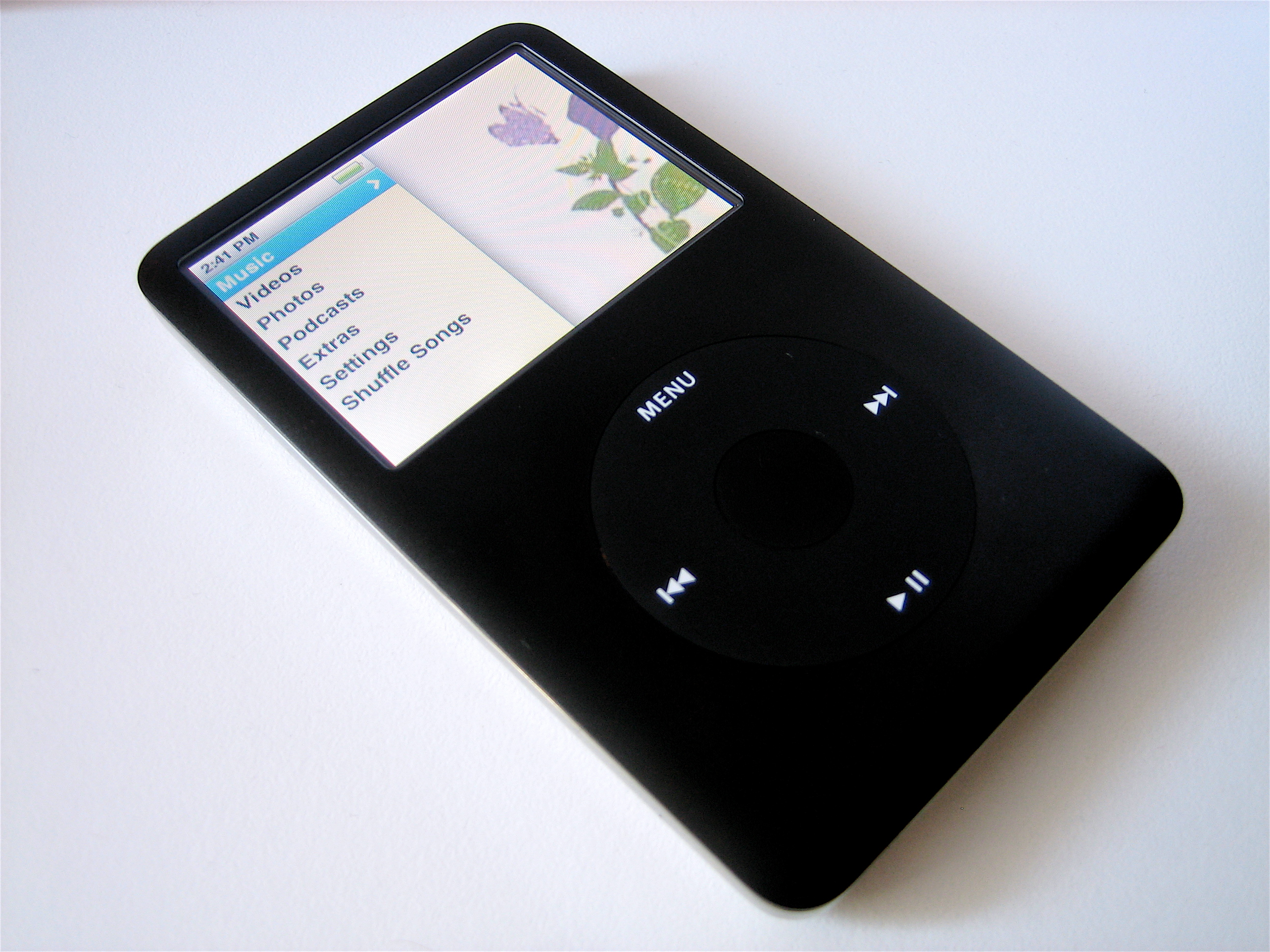 Black iPod classic (6G) and its new interface.